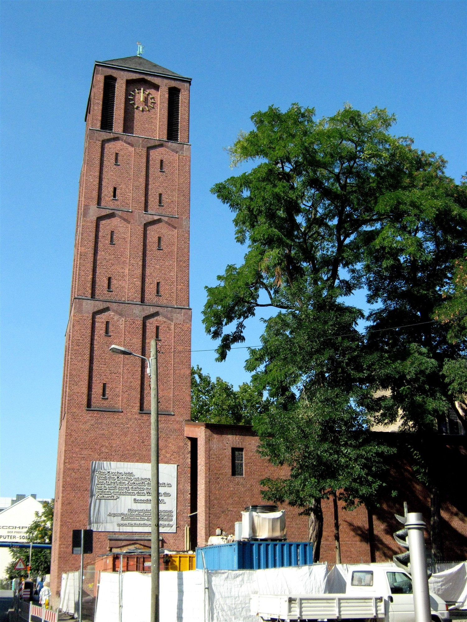 Saint John the Baptist churches in Cologne